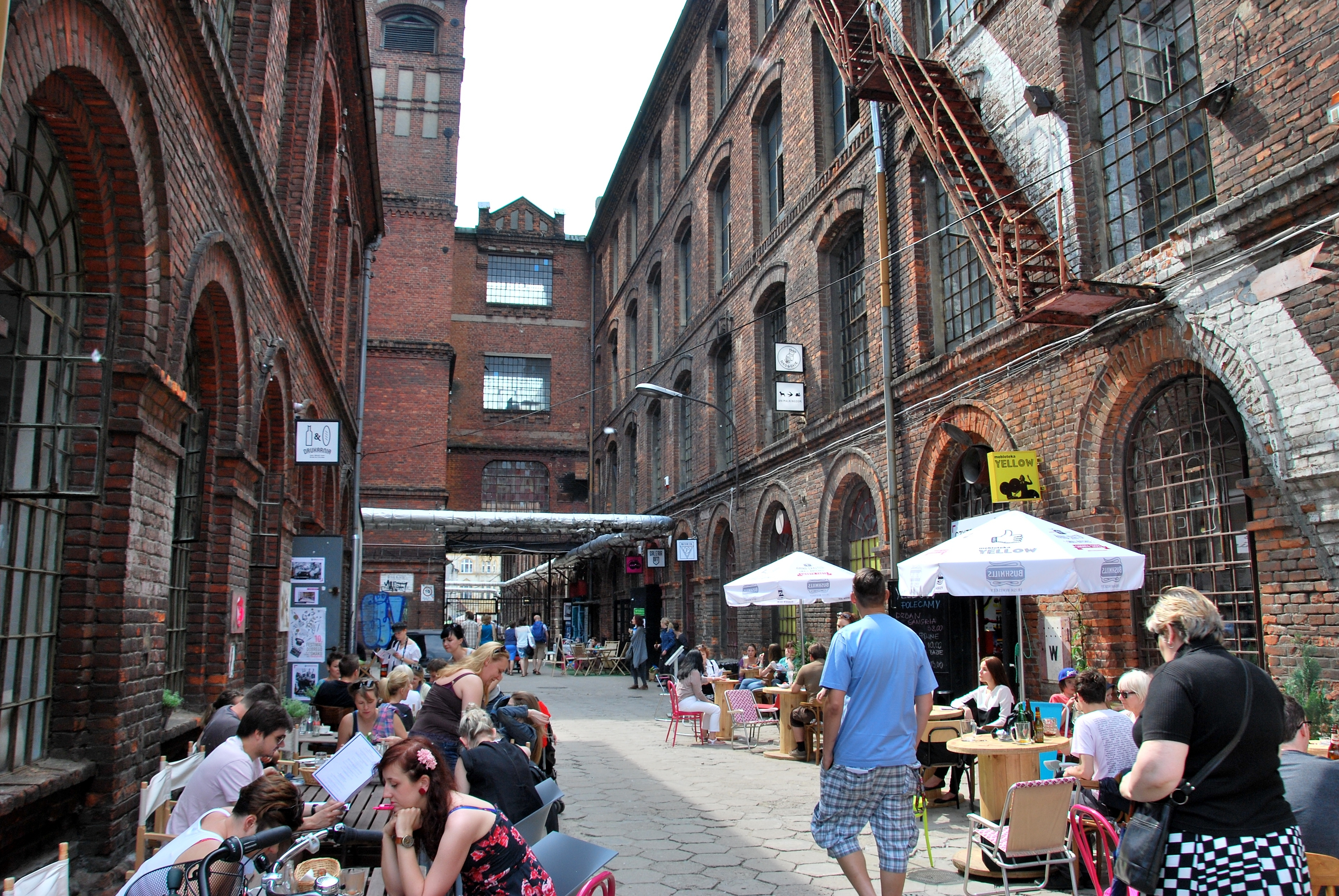 Off Piotrkowska Center in Łódź